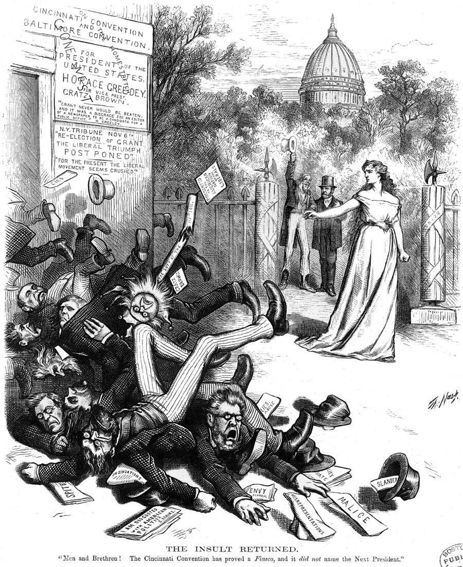 Carl Schurz and other supporters of the Greeley-Gratz 1872 presidential ticket (August Belmont, Reuben Fenton, Lyman Trumbull, Thomas W. Tipton, and others, some running off in background) lie in an agonized heap before a vengeful Columbia (a woman representing the United States). In the background, Uncle Sam (a man representing the United States) waves his hat beside the victorious candidate Ulysses S. Grant.